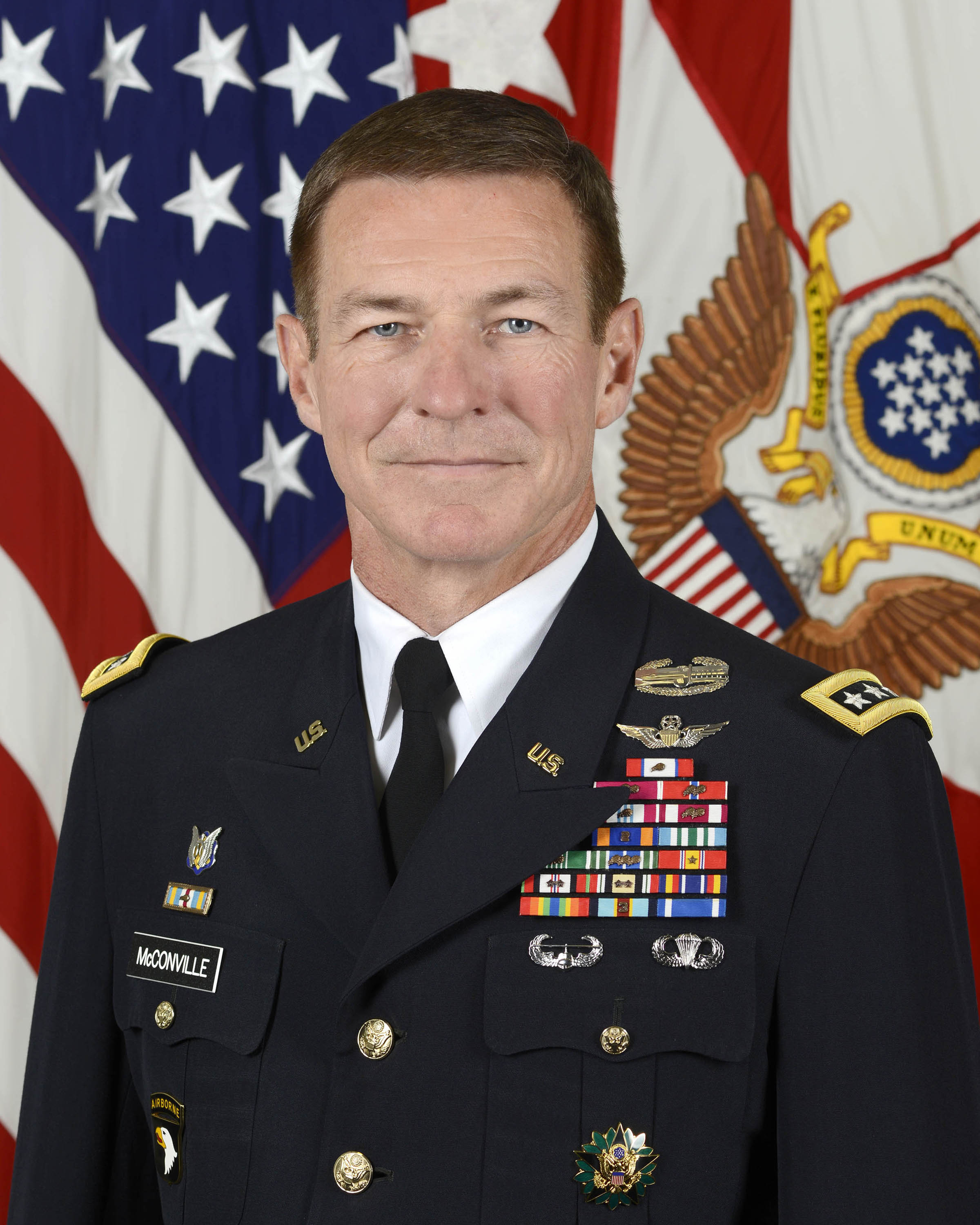 Gen. James C. McConville, 36th Vice Chief of Staff of the Army, poses for a command portrait in the Army portrait studio at the Pentagon in Arlington, VA, June 16, 2017. (U.S. Army photo by Monica King/Released)